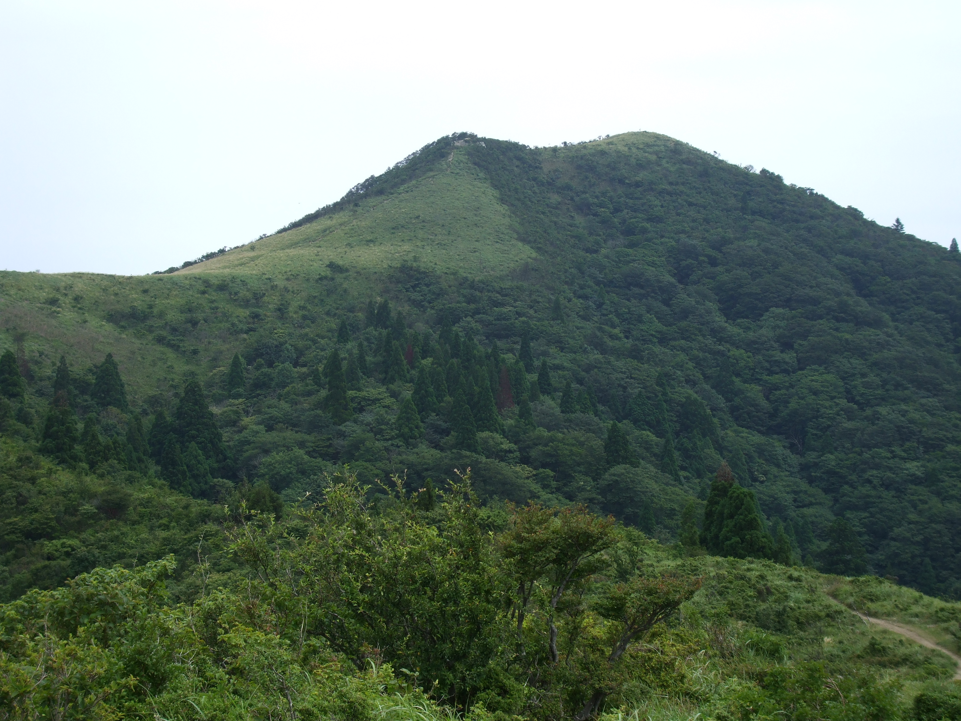 Mount Bunagatake seen from southwest in Ōtsu, Shiga Prefecture Japan.